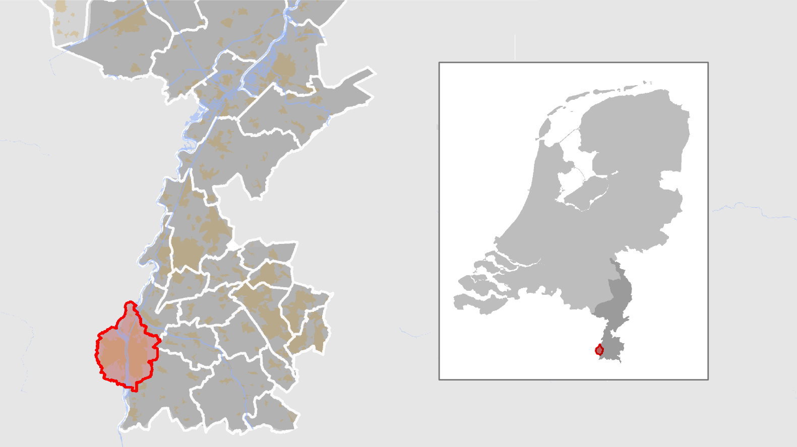 Locator map showing municipality boundary of one of the 390 Dutch municipalities (as of 2016)